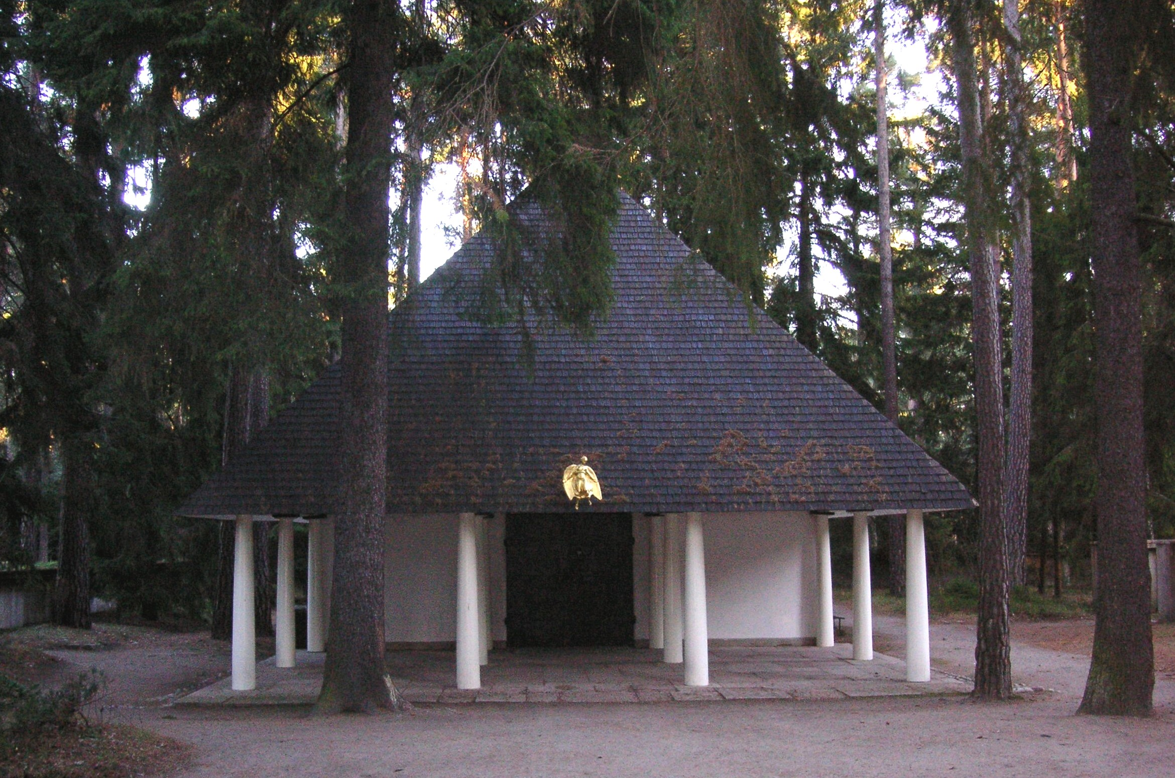 The Skogskapellet building-pavilion with 'veranda' in Stockholm, Sweden - by Swedish architect Gunnar Asplund in his Nordic Classicism period.